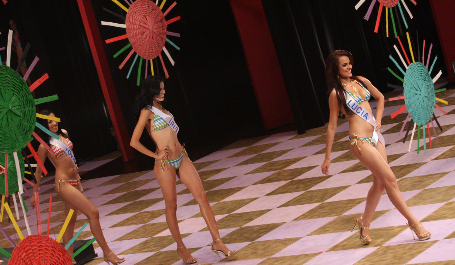 Miss Nicaragua candidates in swimsuit